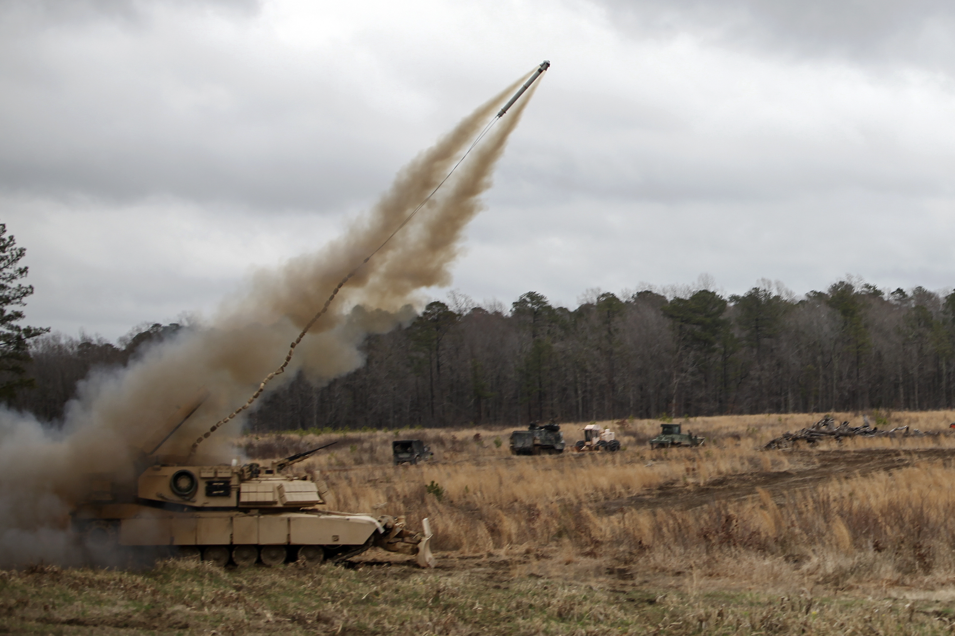 An M1A1 Abrams tank with 2nd Tank Battalion, 2nd Marine Division launches an M58 Mine Clearing Charge into a simulated mine field during a Marine Corps Combat Readiness Evaluation at Fort Pickett, Va., March 25-28, 2015. The MICLIC clears a lane 8 meters wide by 100 meters long in a potential minefield so that safe passage through can used. (U.S. Marine Corps photo taken by Cpl. Alexander Mitchell/released)